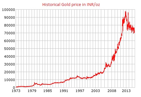 40 years Gold price in INR